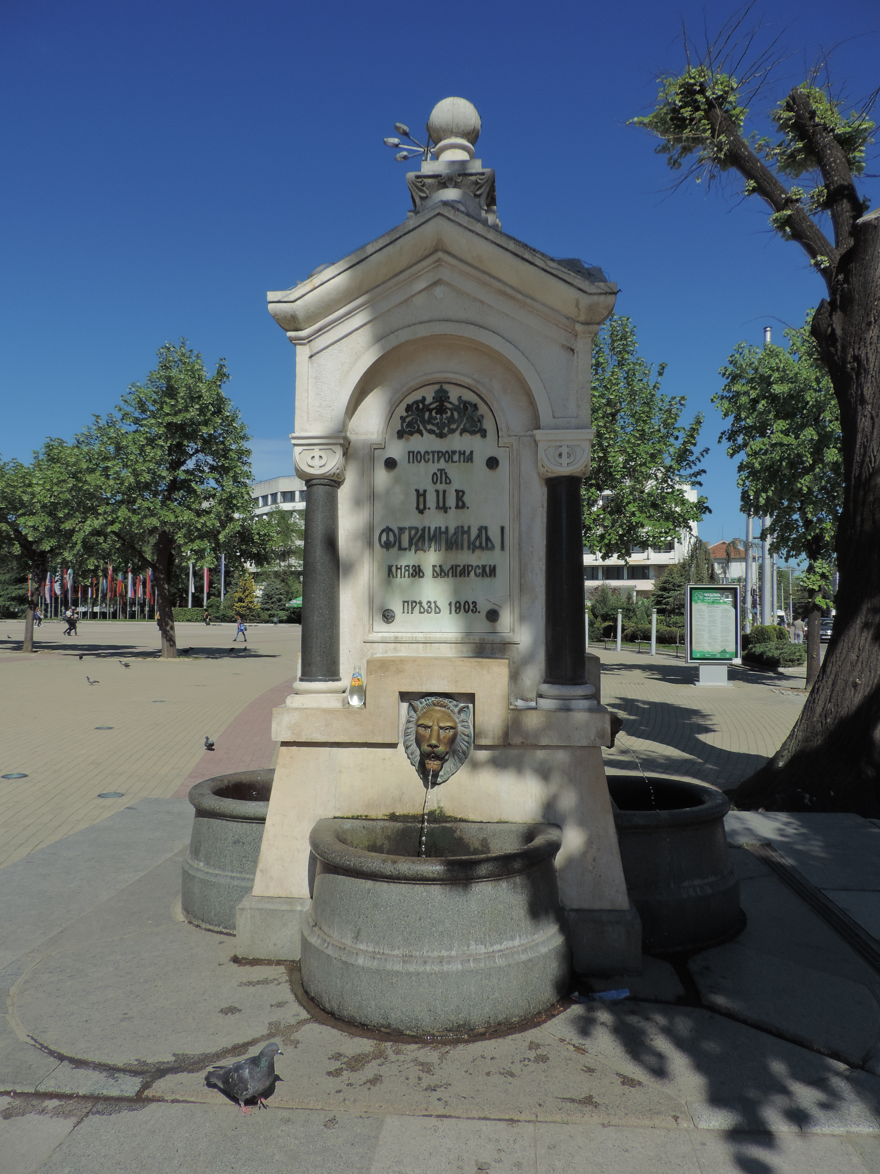 The lion cheshma, Kazanlak, Bulgaria